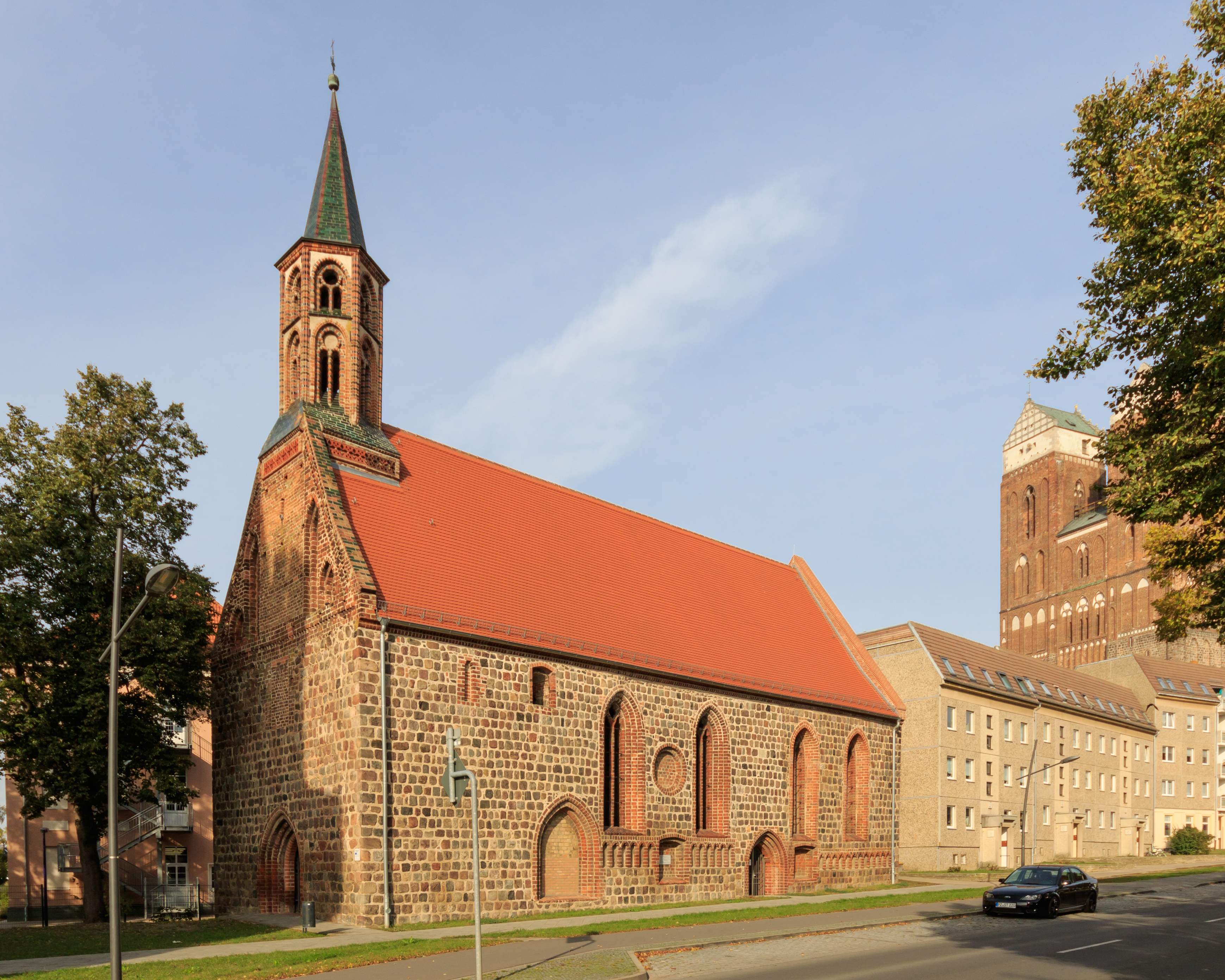 Holy Spirit Chapel in Prenzlau, Brandenburg, Germany